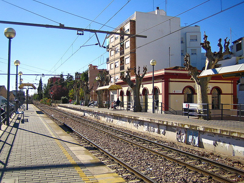 Estació de metro as Almàssera, Horta, País Valencià. Metrovalencia station at Almàssera, Valencian Country, Spain